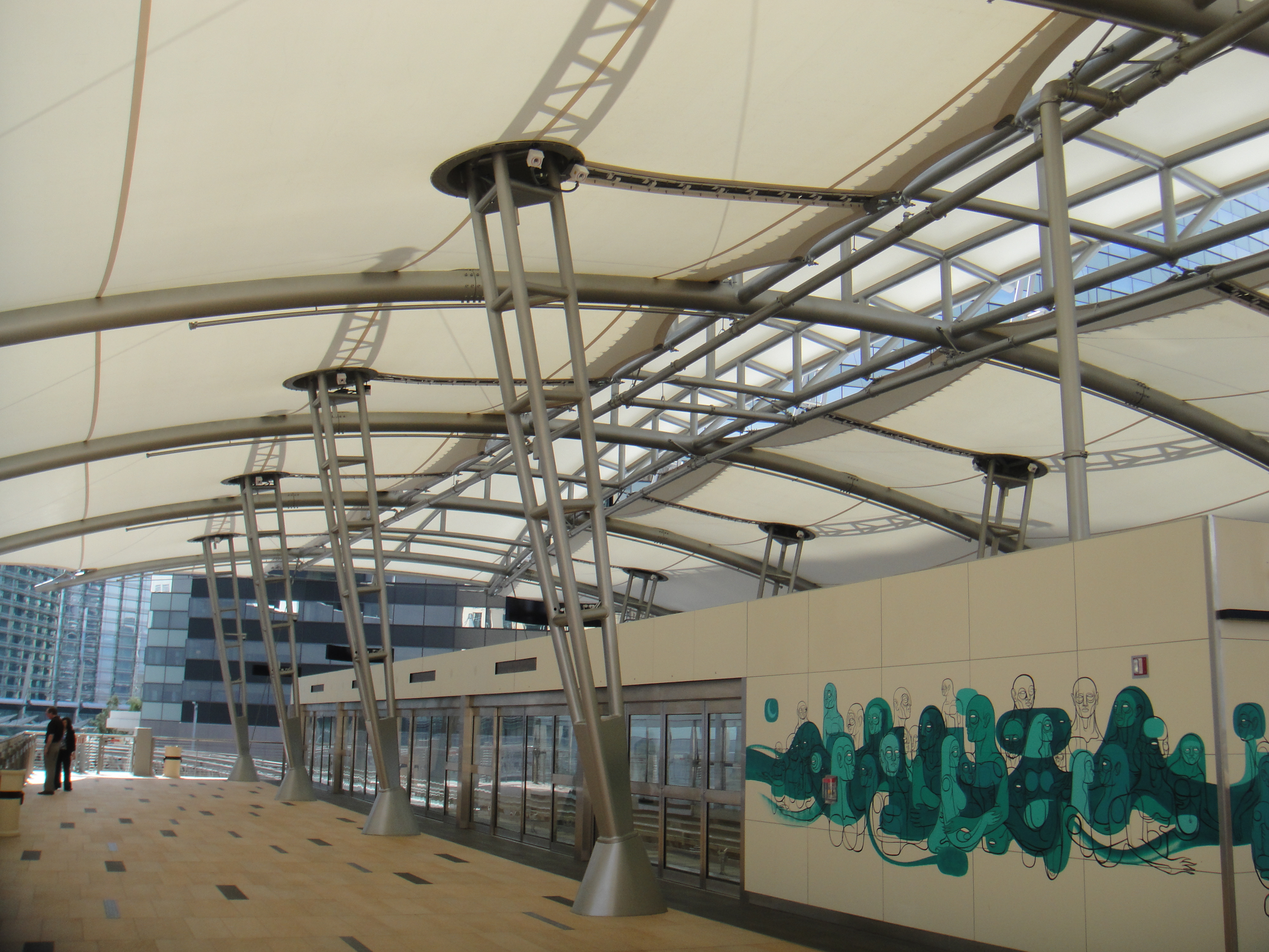 Inside the Bellagio tram station at the CityCenter development in Las Vegas, Nevada